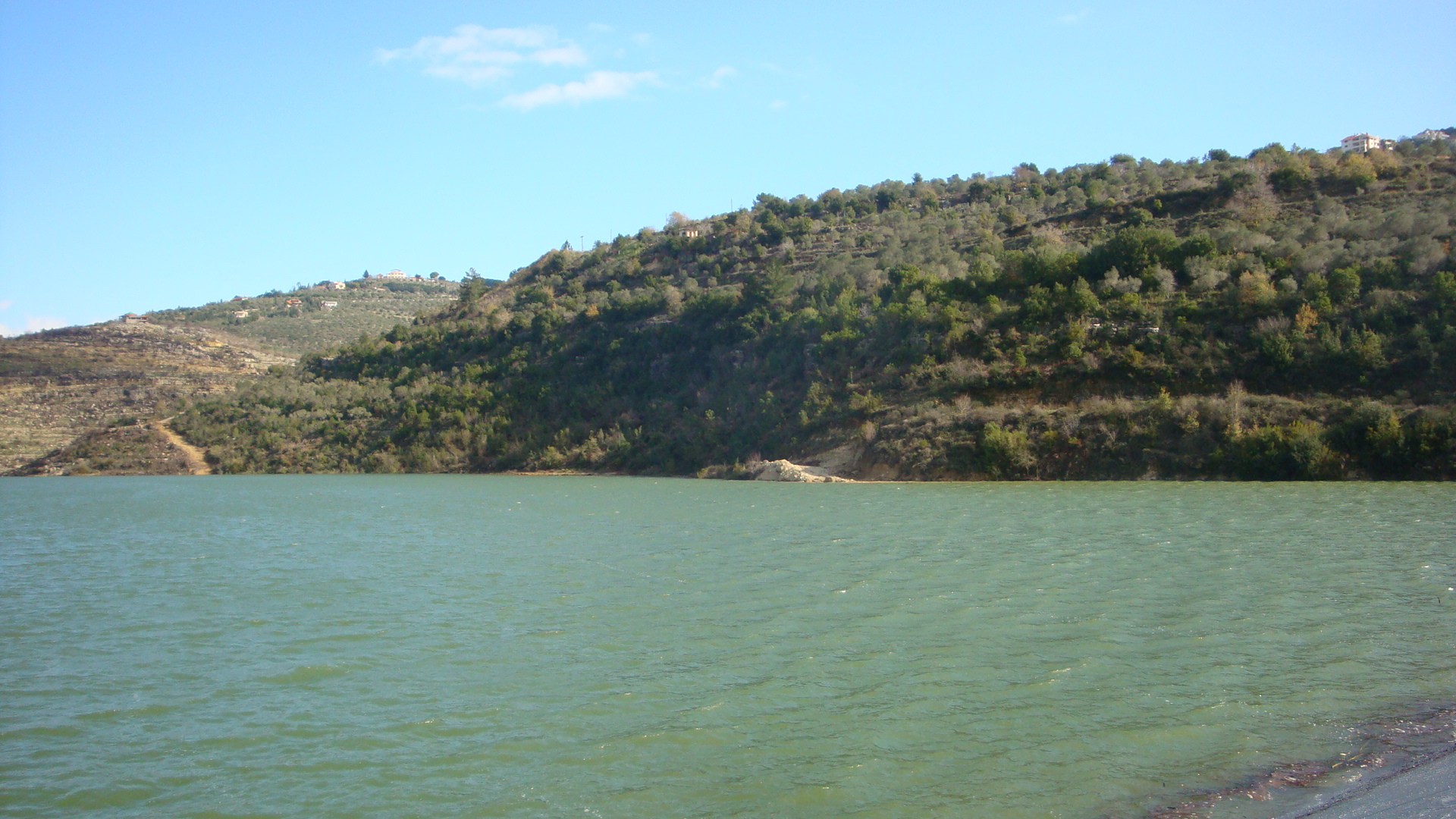 DREIKISH DAM ON QAIS RIVER